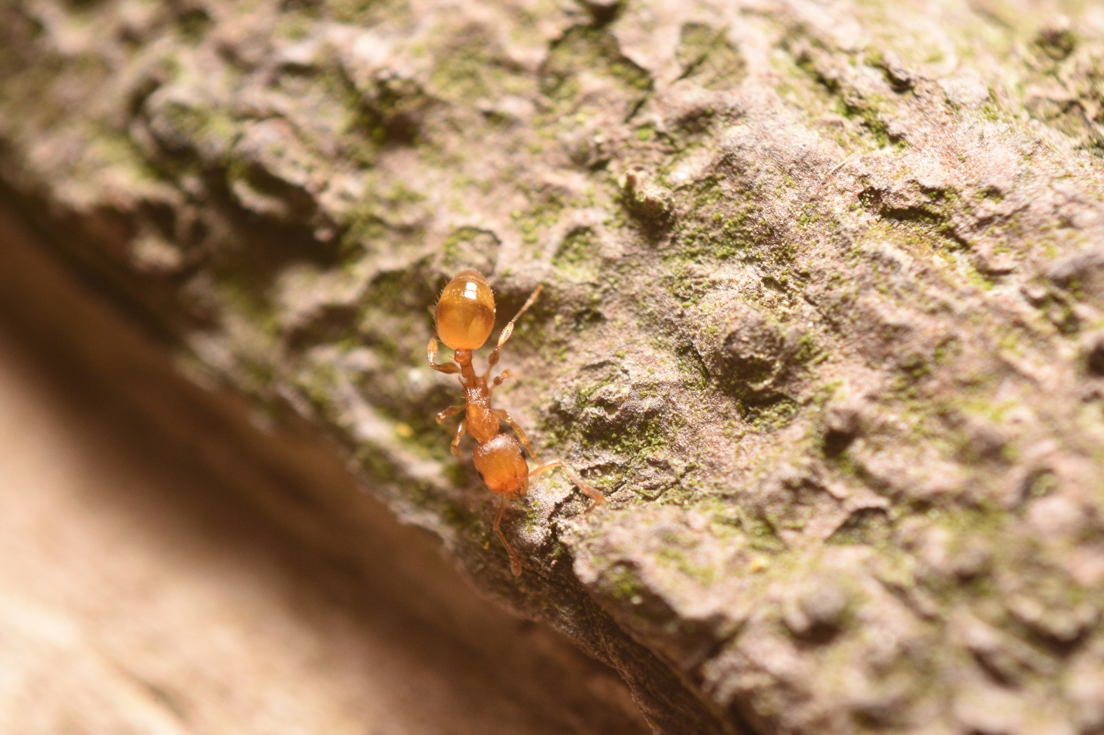 Up close shot of Solenopsis molesta - Cincinnati, Ohio